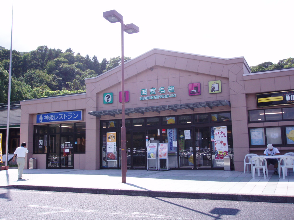 Chugoku Expressway Nishinomiya-najio Service Area（Direction of Hiroshima）